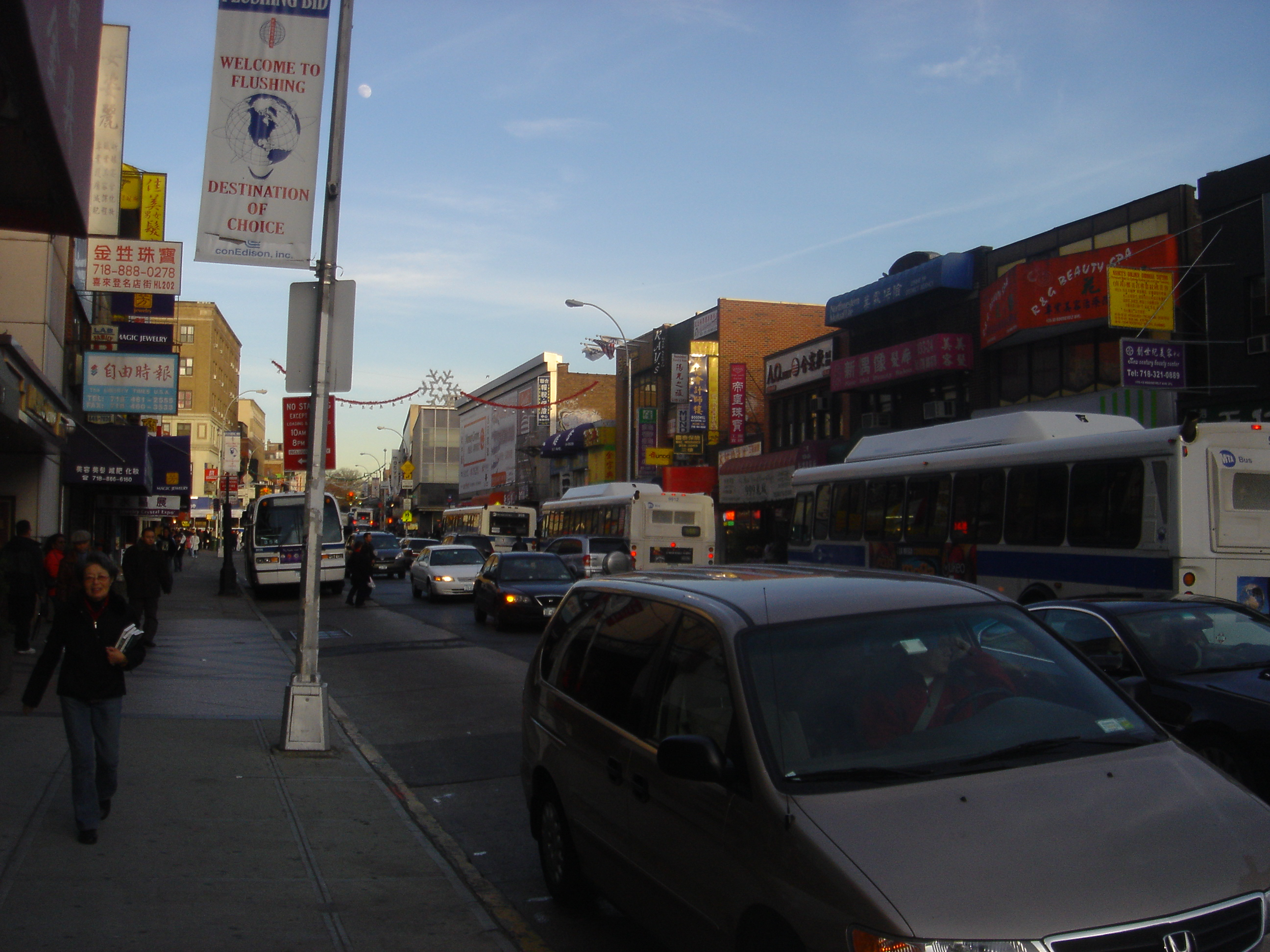 I (Nutmegger) took this photo on Dec 31, 2006 and hereby release it into the public domain.